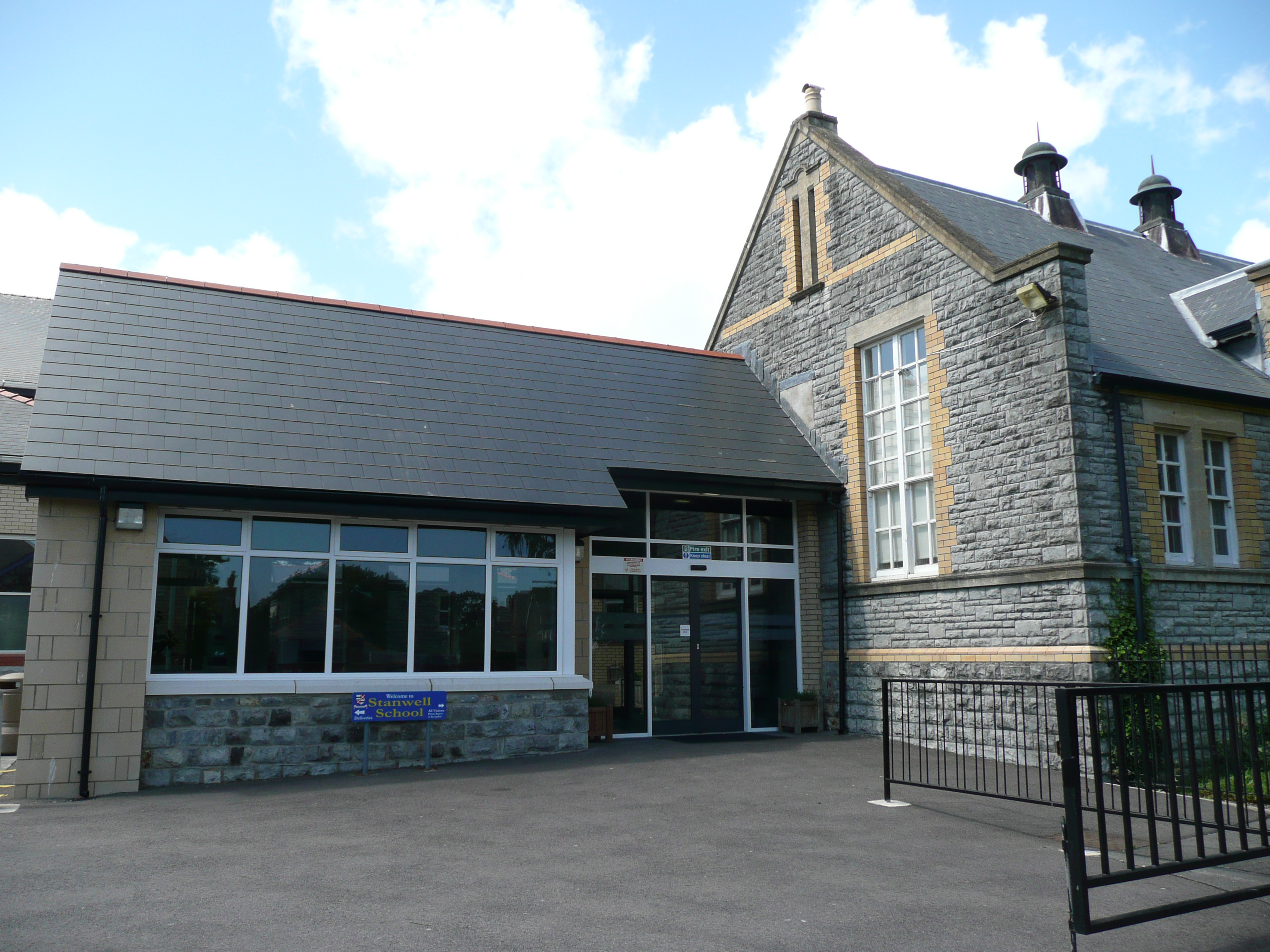 Stanwell School front entrance in Penarth